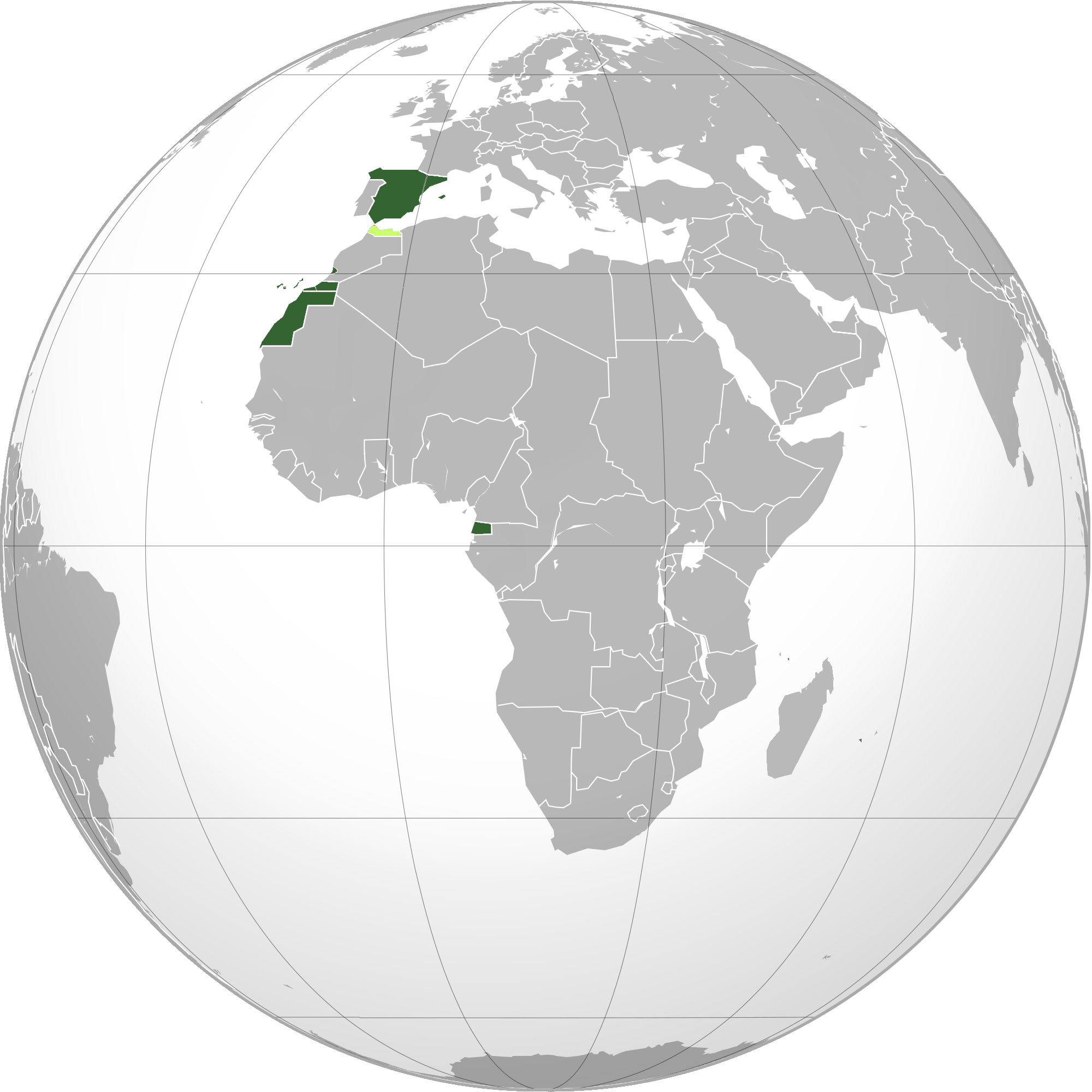 Green:Map of the Spanish State (includes overseas provinces)Lime: ProtectoratesOrange: Joint administrations